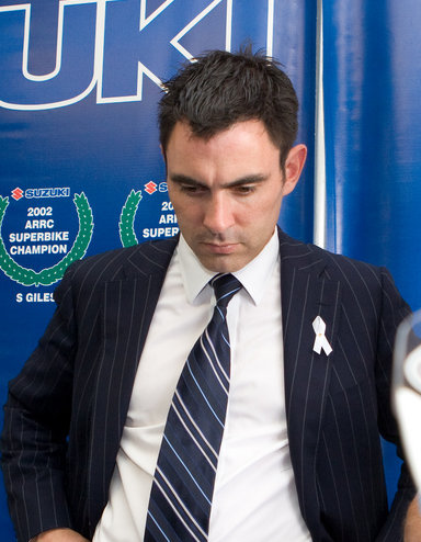 Tim Holding during a tour of the pits for a superbike race.